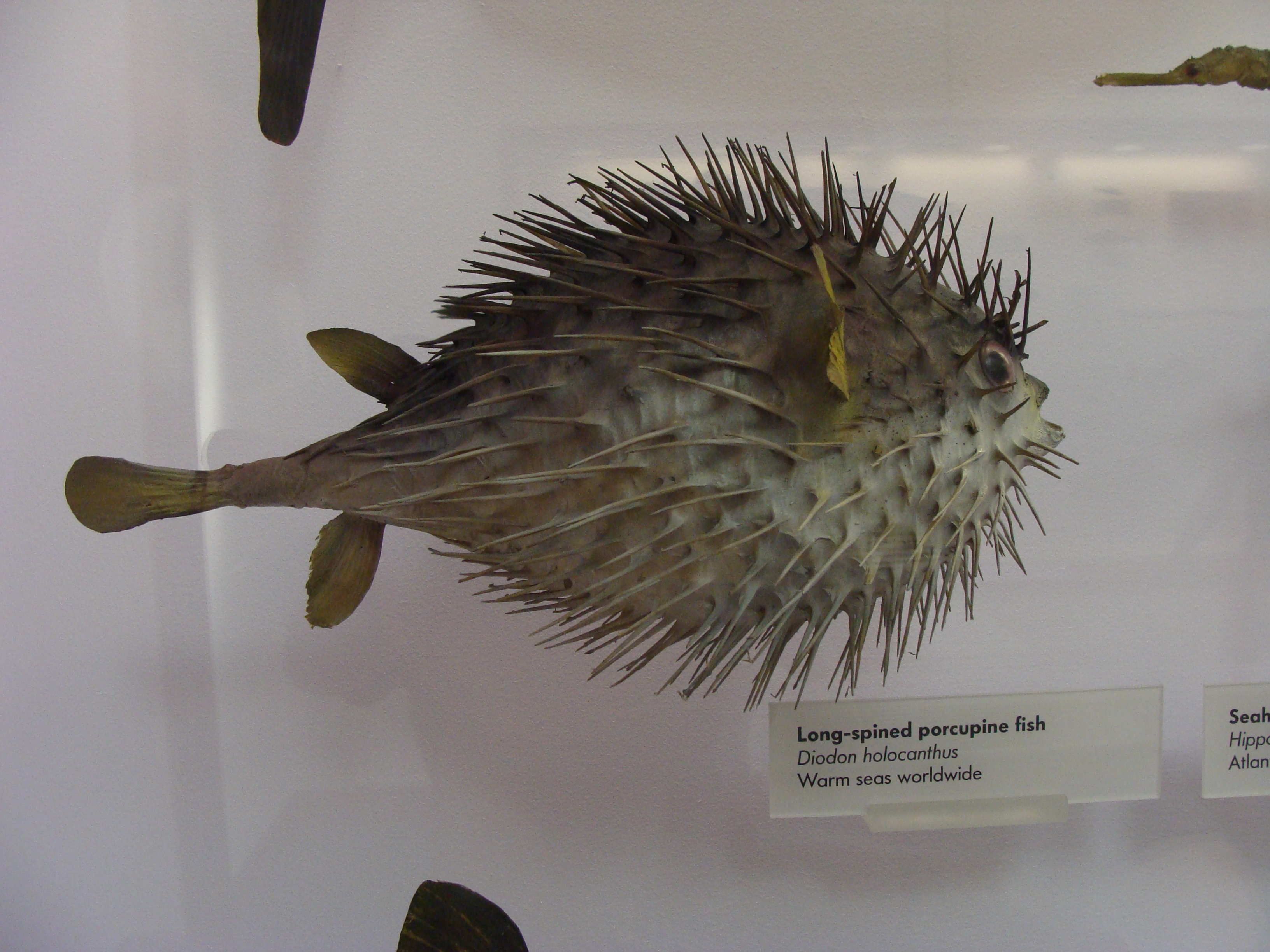 Diodon holacanthus (Long-spined porcupine fish) in the Natural History Museum of London